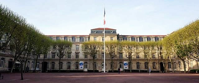 The Great Court of the Centre Berthelot